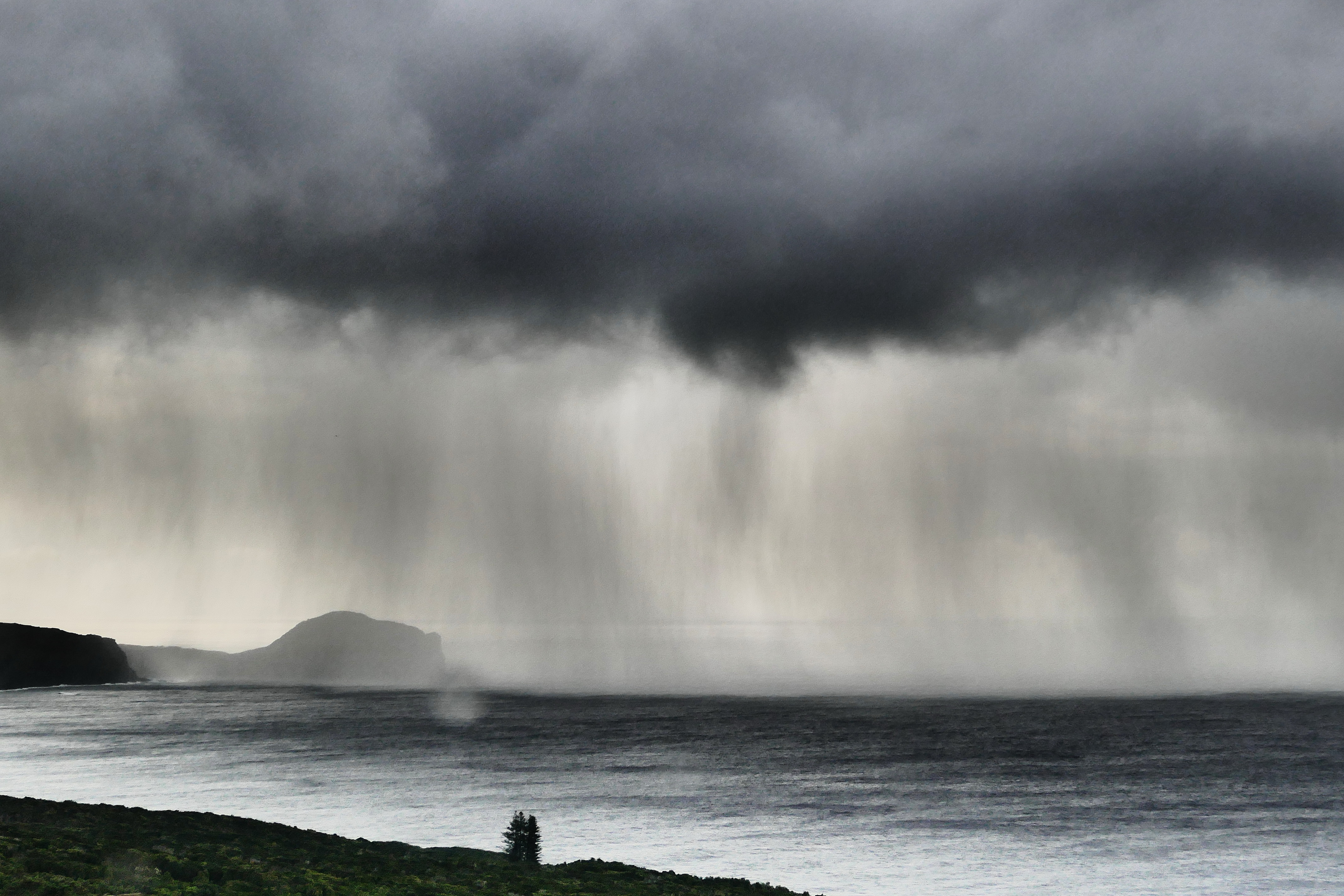 Rain over the Atlantic on the North coast of Faial (Azores)